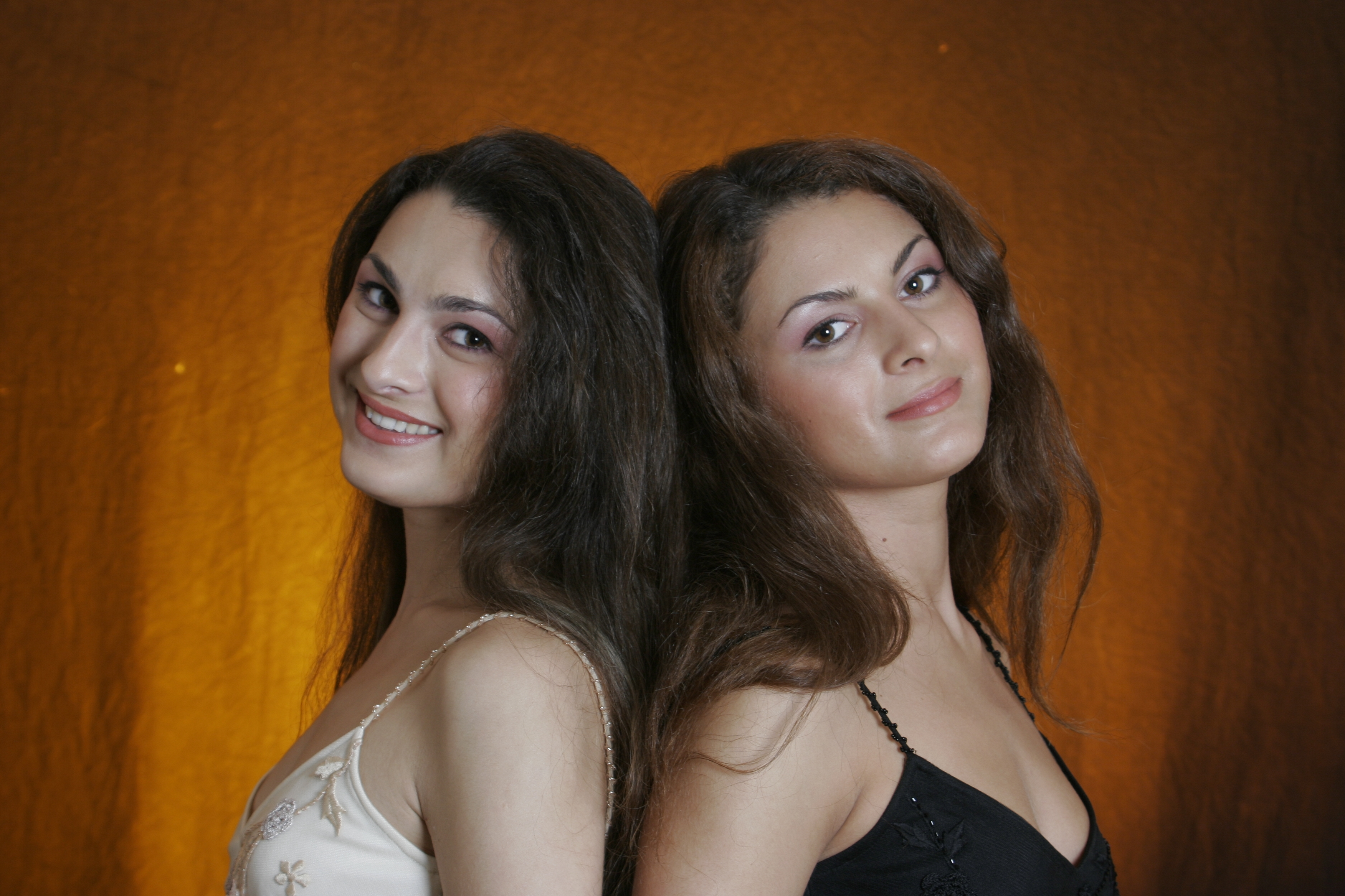 Alie (left) and Lilya Bekirova (right), Uzbek violinists